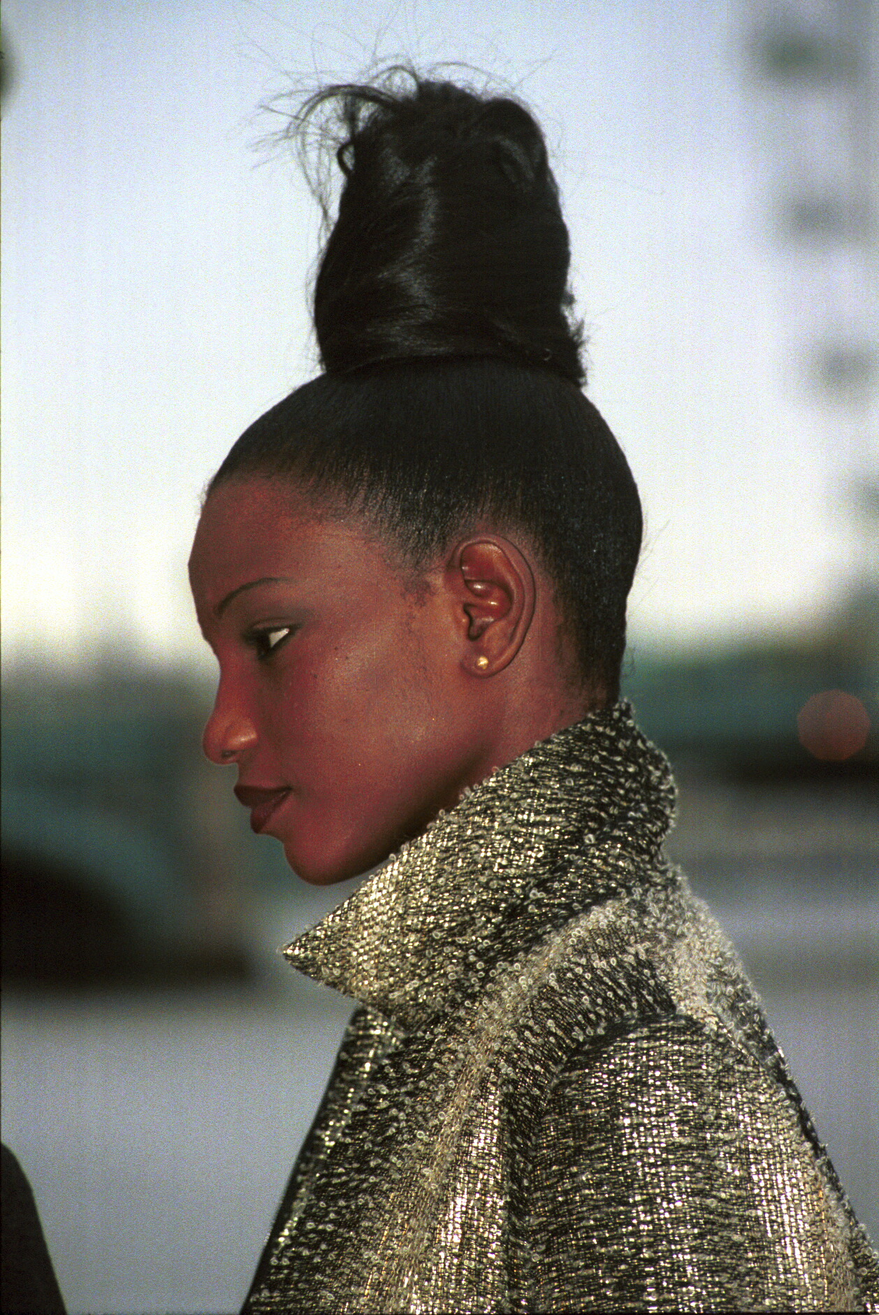 Agbani Darego Miss World from Nigeria at a Patti Boulaye Support for Africa event at the House of Commons